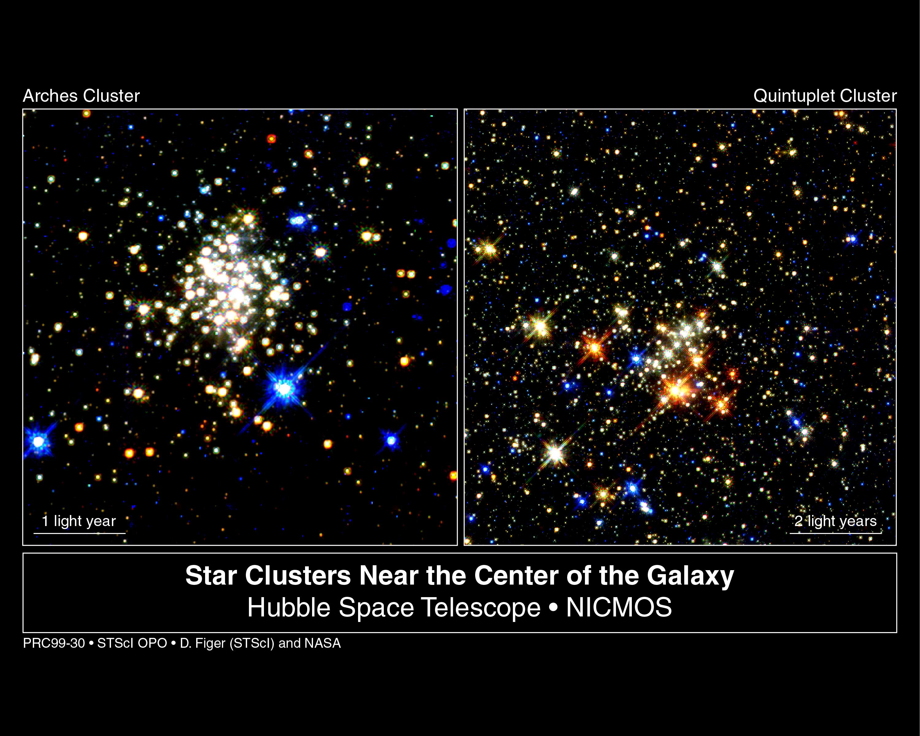 The densest known star cluster in the Milky Way